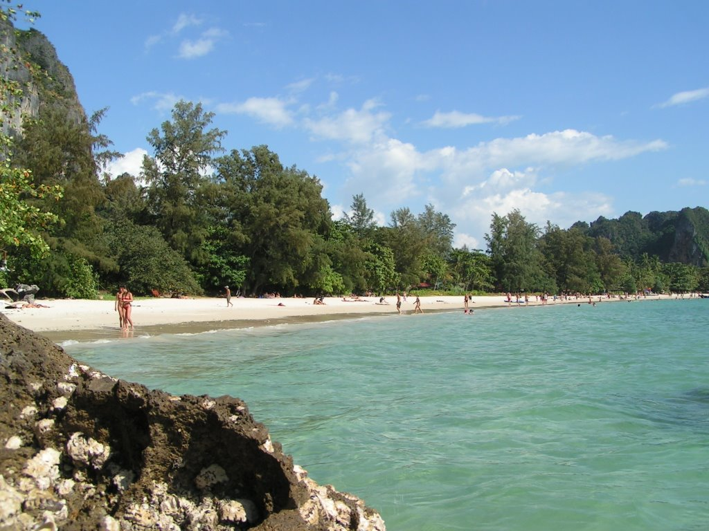 Railay Beach